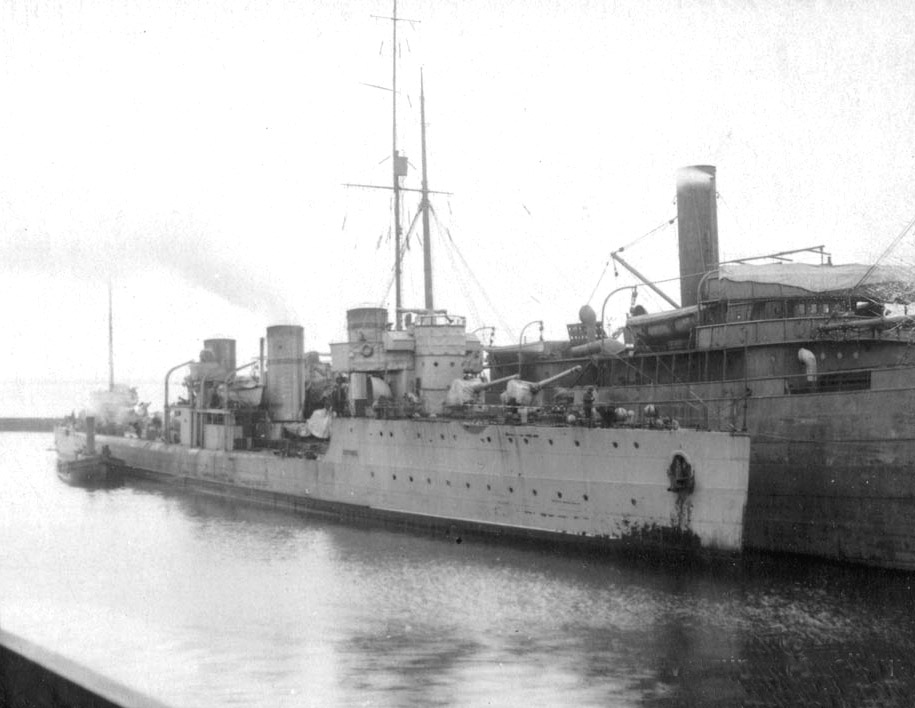 Imperial Russian destroyer Avtroil.